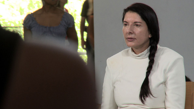 Performance artist Marina Abramović during her performance "The Artist Is Present" at the Museum of Modern Art. Still image from the 2010 documentary "The Future of Art" by Erik Niedling and Ingo Niermann.